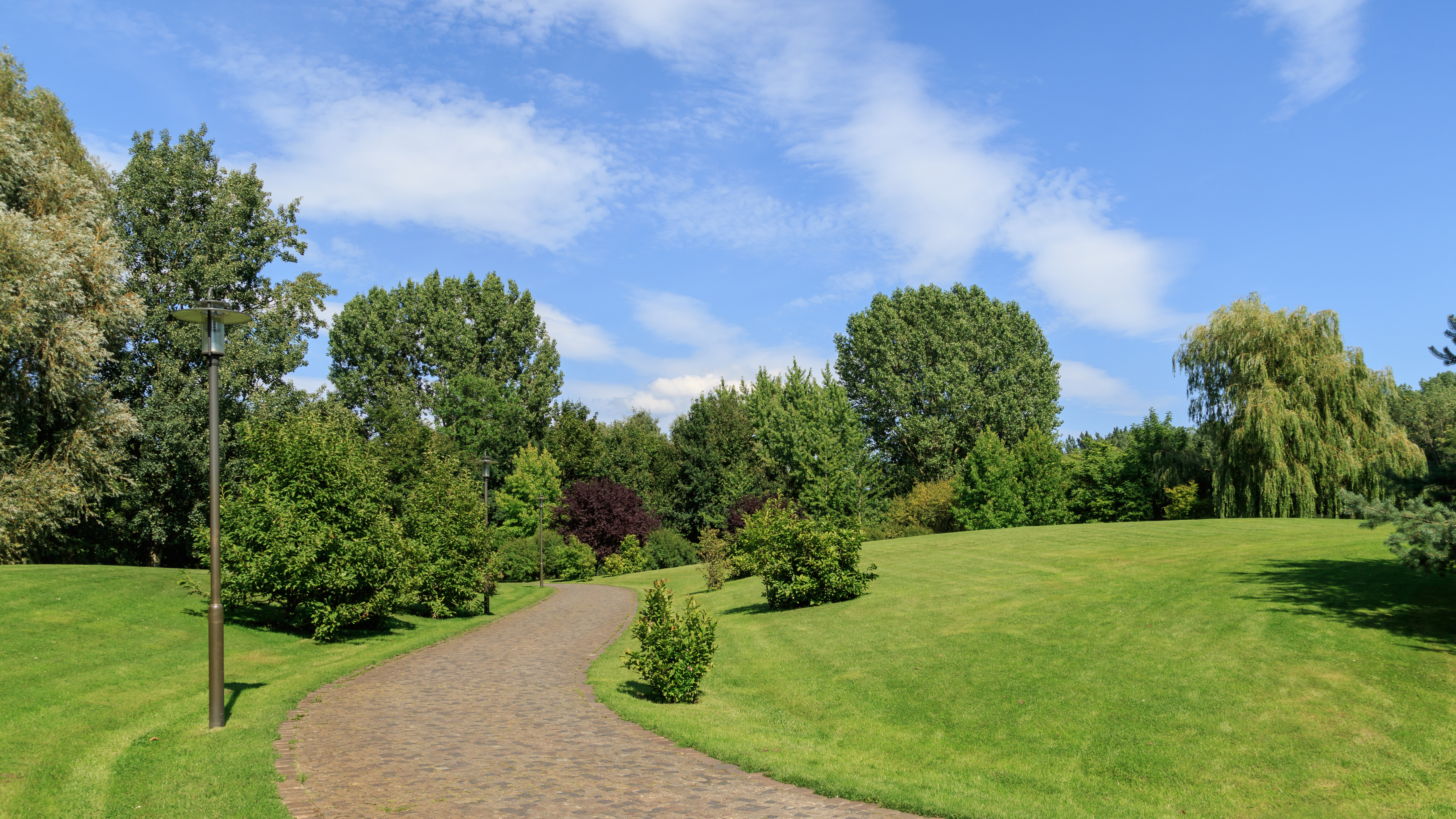 Berlin-Marzahn Gardens of the World: an alley